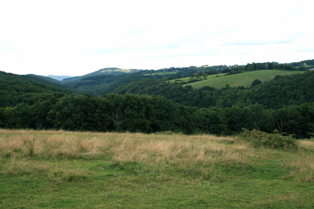 general view of the landscape and valley of controversial Glozel site, Ferrières-sur-Sichon, France